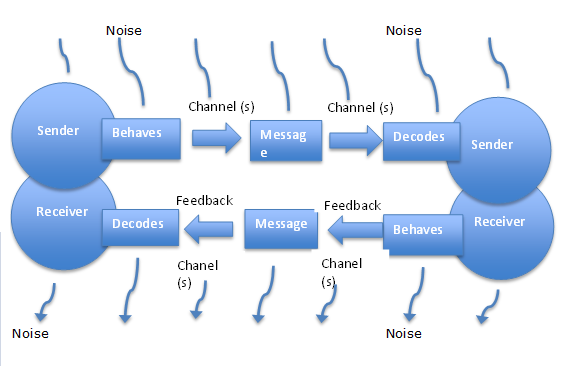 Interactive Model of Communication